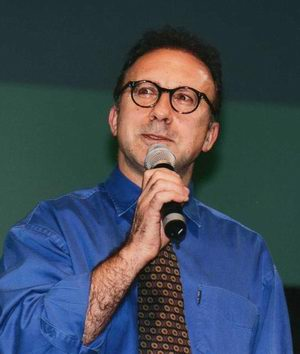 smaller version